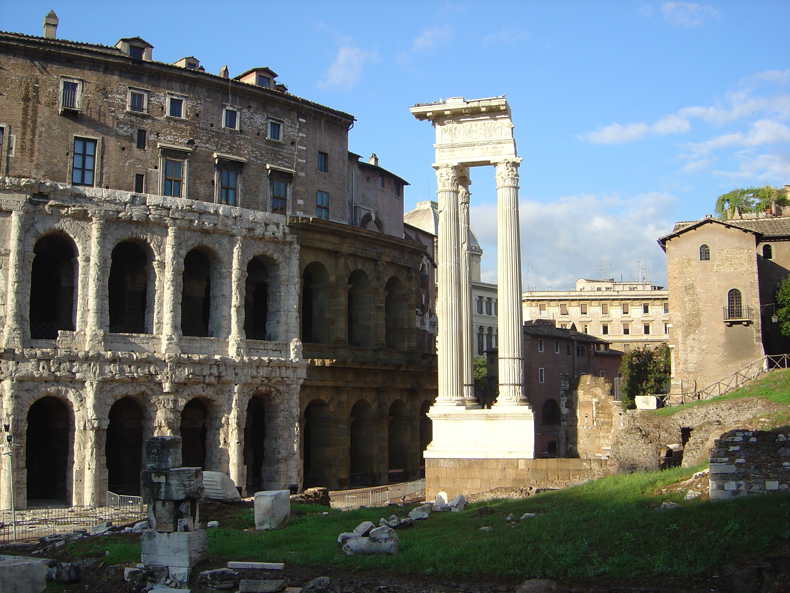 Temple of Apollo in Rome